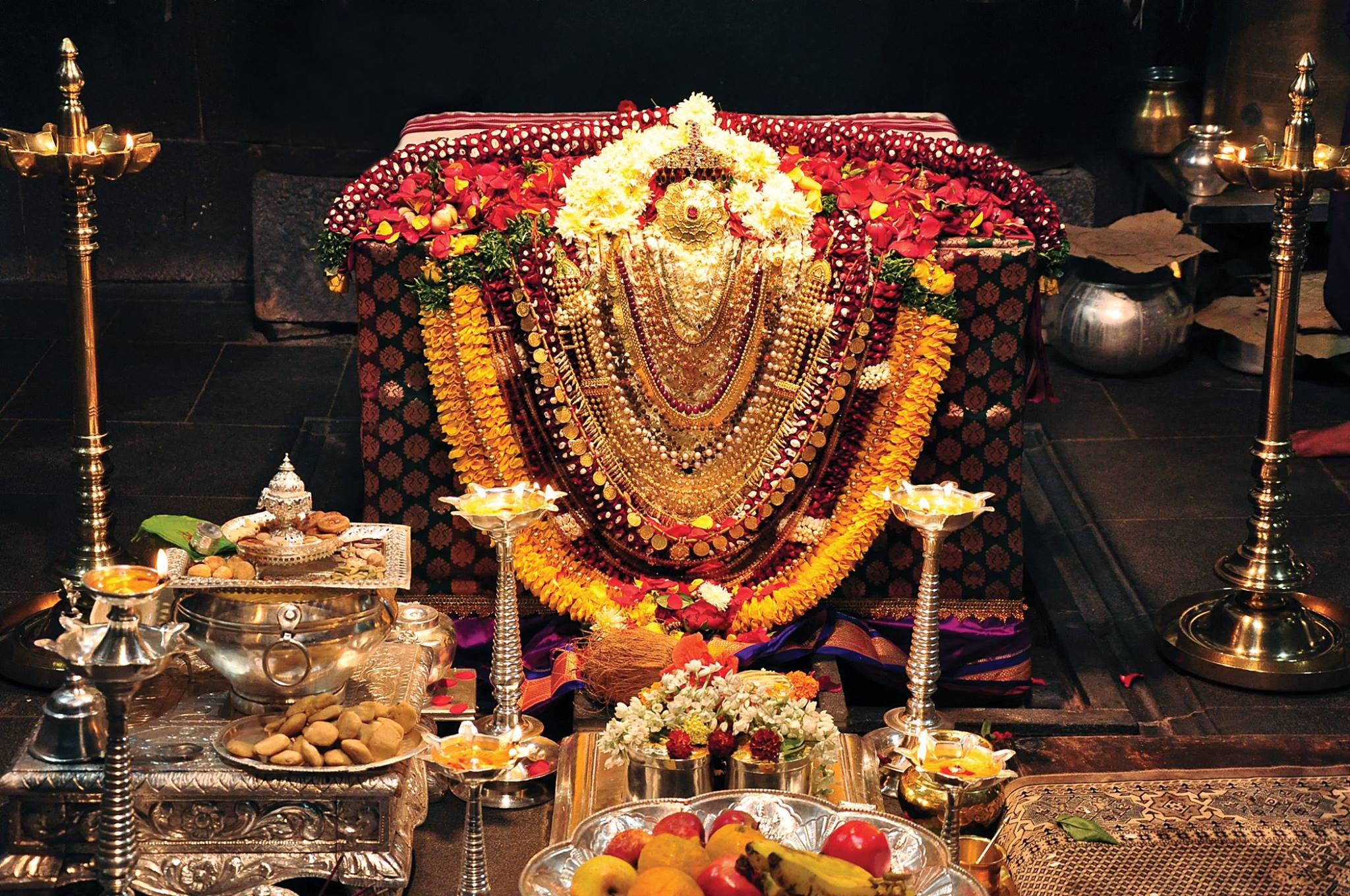 This is the Mahasamadhi of Shri Manik Prabhu